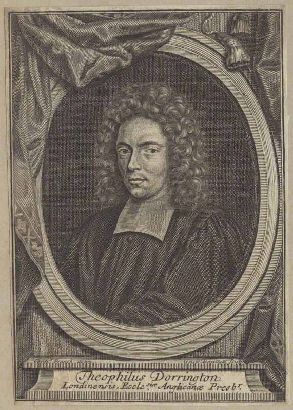 Portrait of Theophilus Dorrington (1654–1715), Church of England clergyman.